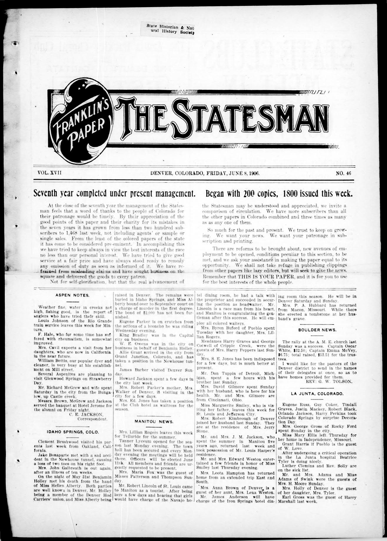 Front page of the June 8, 1906 edition of Franklin's Paper The Statesman, an African-American weekly newspaper based in Denver, known previously as The Statesman and later as the Denver Star. This name was adopted to distinguish it from a competing African-American newspaper, The Colorado Statesman.